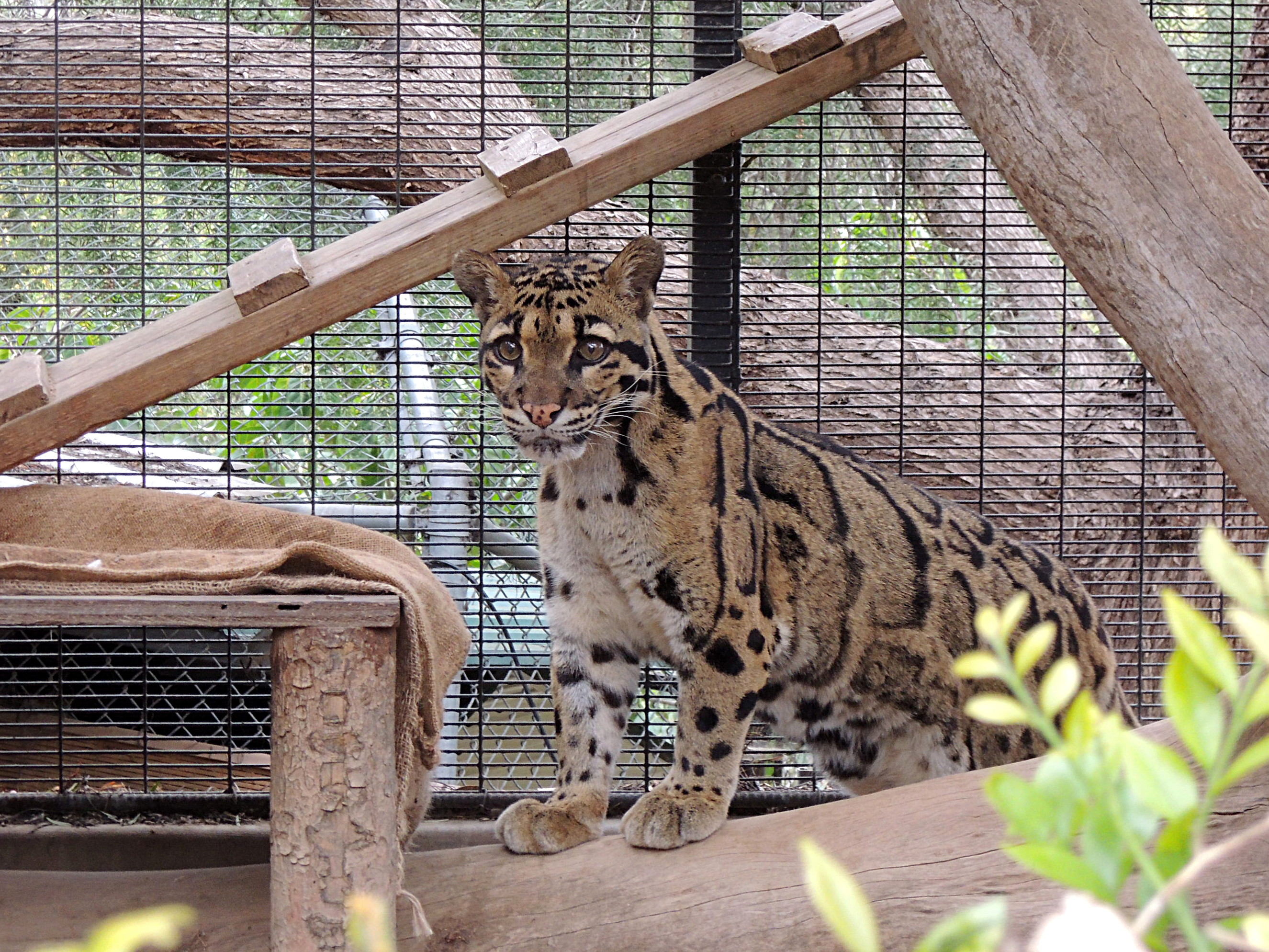 Clouded Leopard (Neofelis nebulosa) at San Diego Zoo.